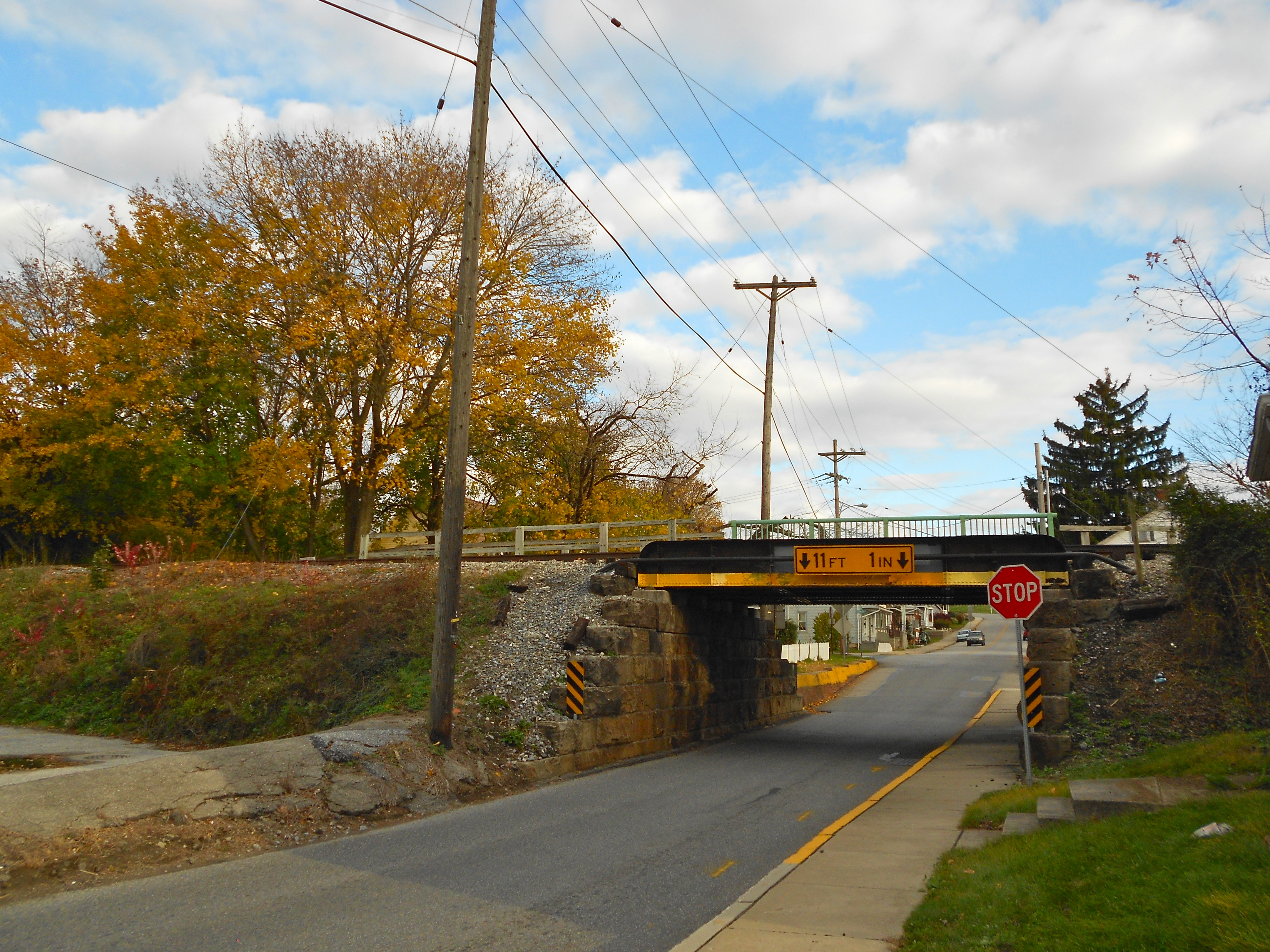 Bridge 5+92, Northern Central Railway on the NRHP since May 4, 1995. On the Northern Central railroad tracks over South Main Street, north of Pennsylvania Route 214, Seven Valleys, York County, Pennsylvania